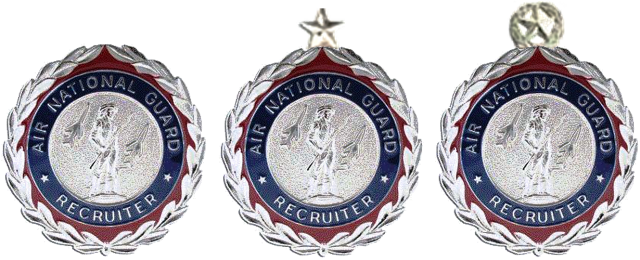 U.S. Air National Guard's Recruiting Service Badges